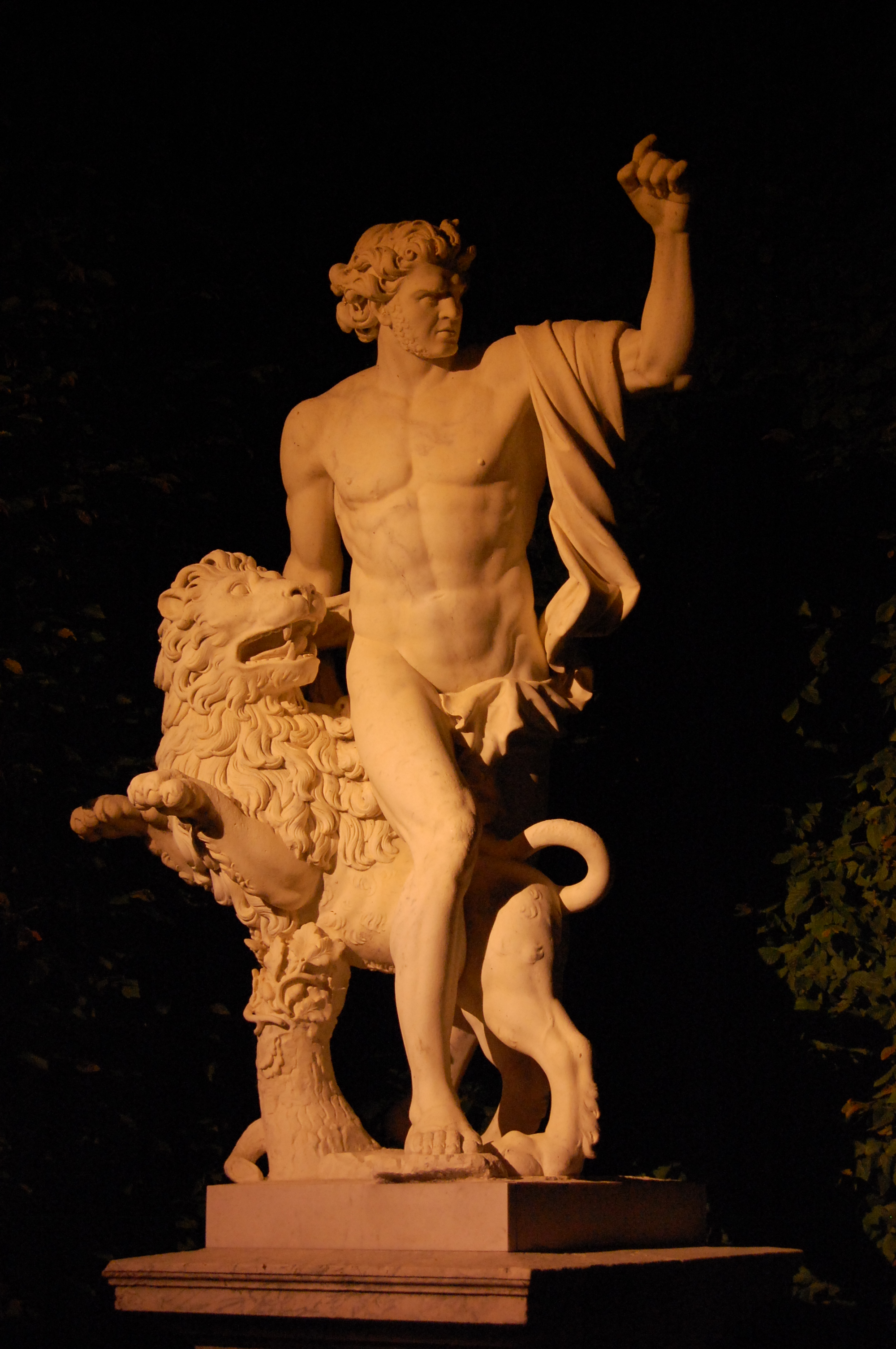 Le Colérique (the irascible man) by Jacques Houzeau